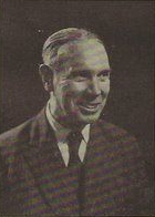 Aquilino Ribeiro, portuguese writer